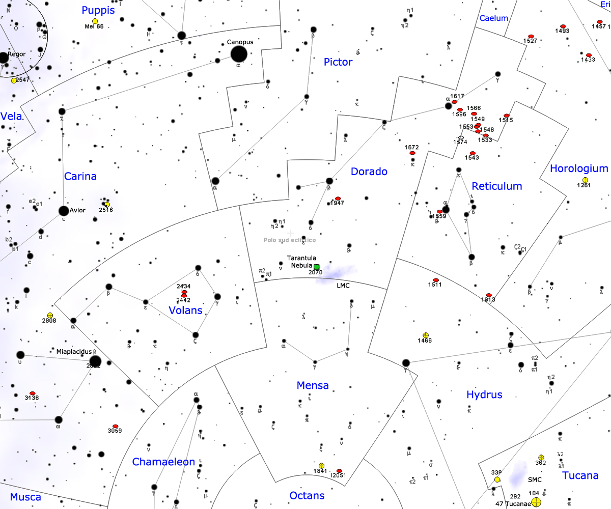 Image of Volans